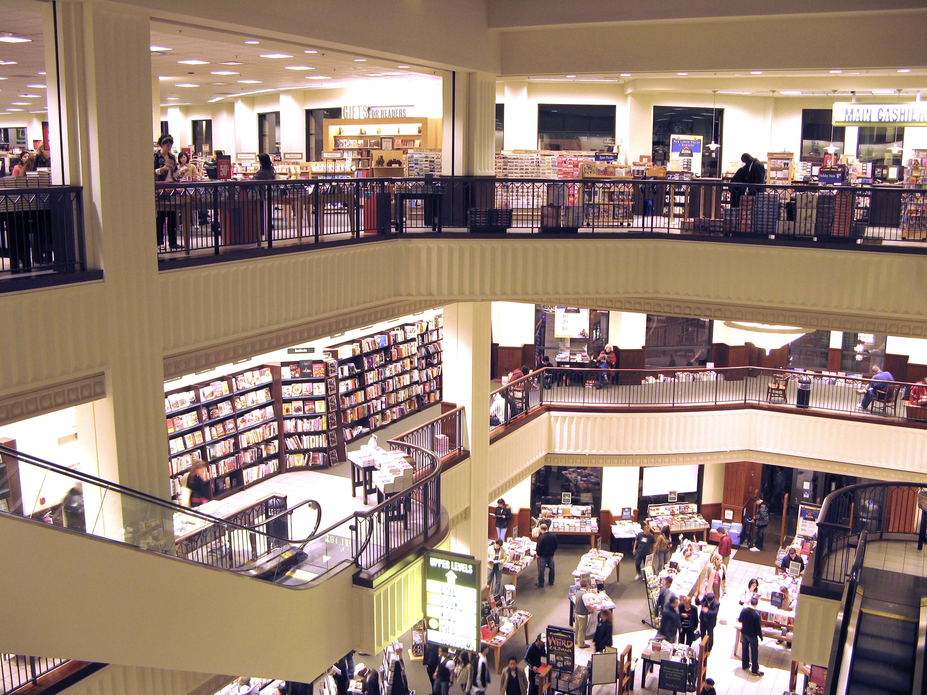 The interior of the Barnes & Noble located at The Grove at Farmers Market.